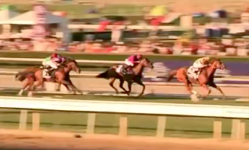 Wise Dan winning the 2012 Breeders' Cup Mile at Santa Anita Park